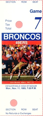 A ticket for a November 11, 1985 NFL game featuring the San Francisco 49ers versus the Denver Broncos at Denver Mile High Stadium.